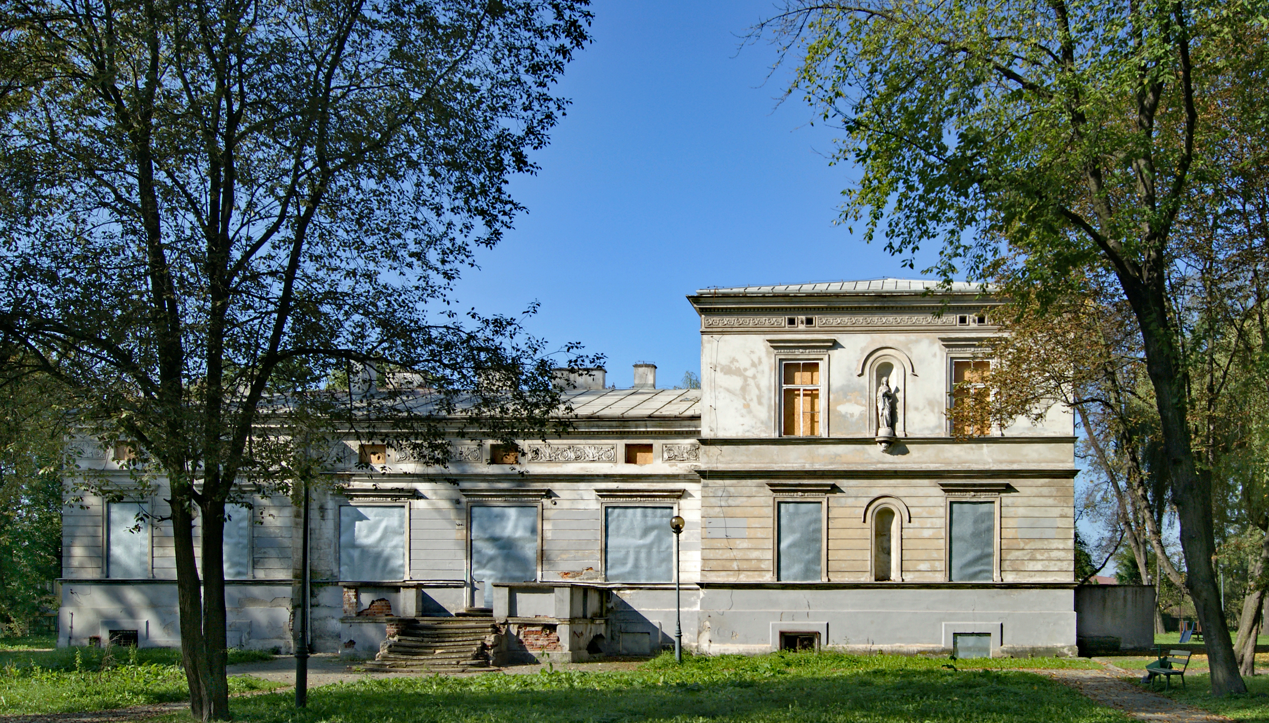 Badeni's Manor in Wadow (view from S), 63 Glinik street, Nowa Huta, Krakow, Poland